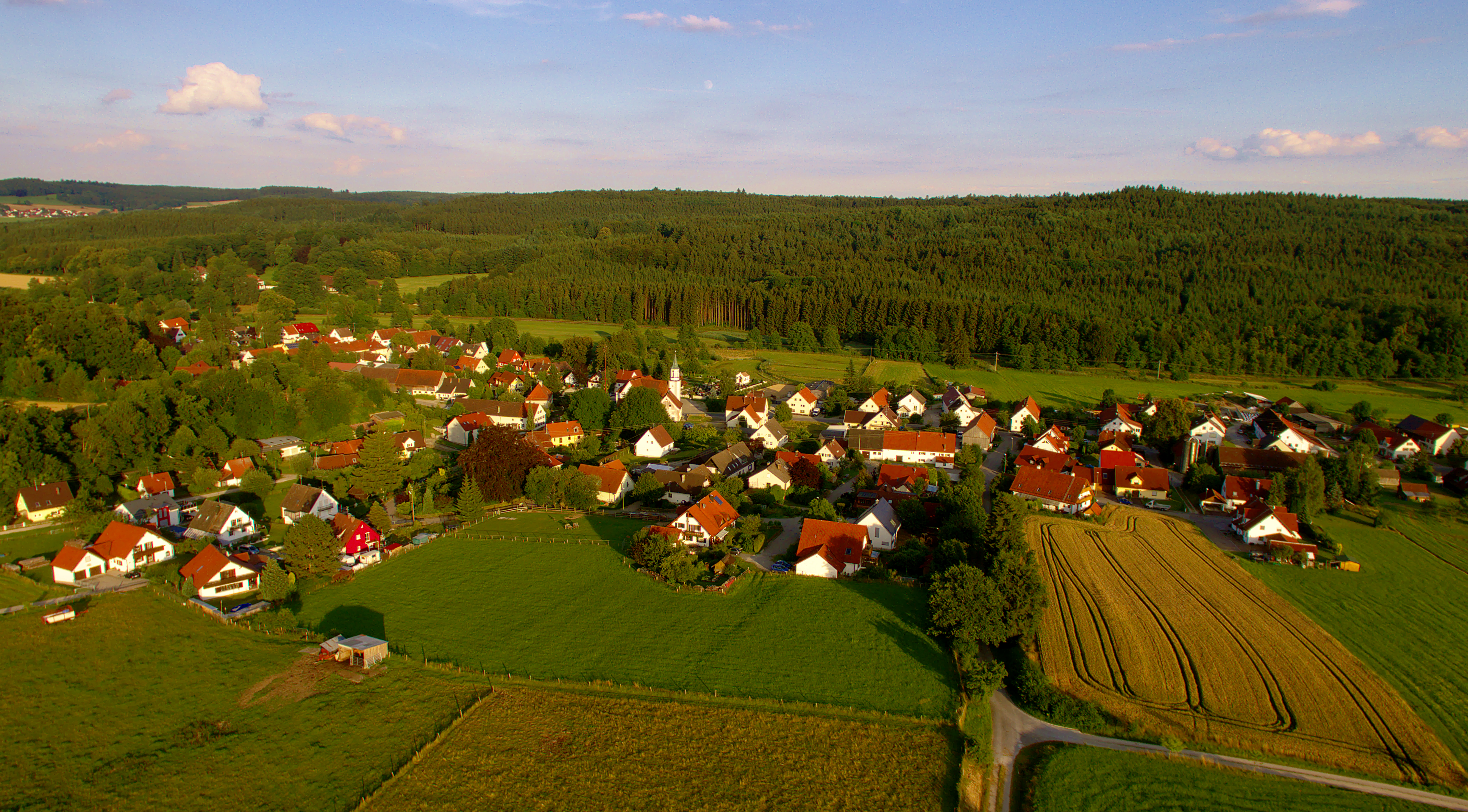 Wollmetshofen (Fischach) near Augsburg